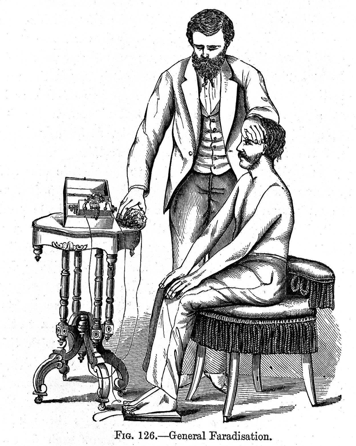 General Faradisation General Collections Keywords: Electrotherapy